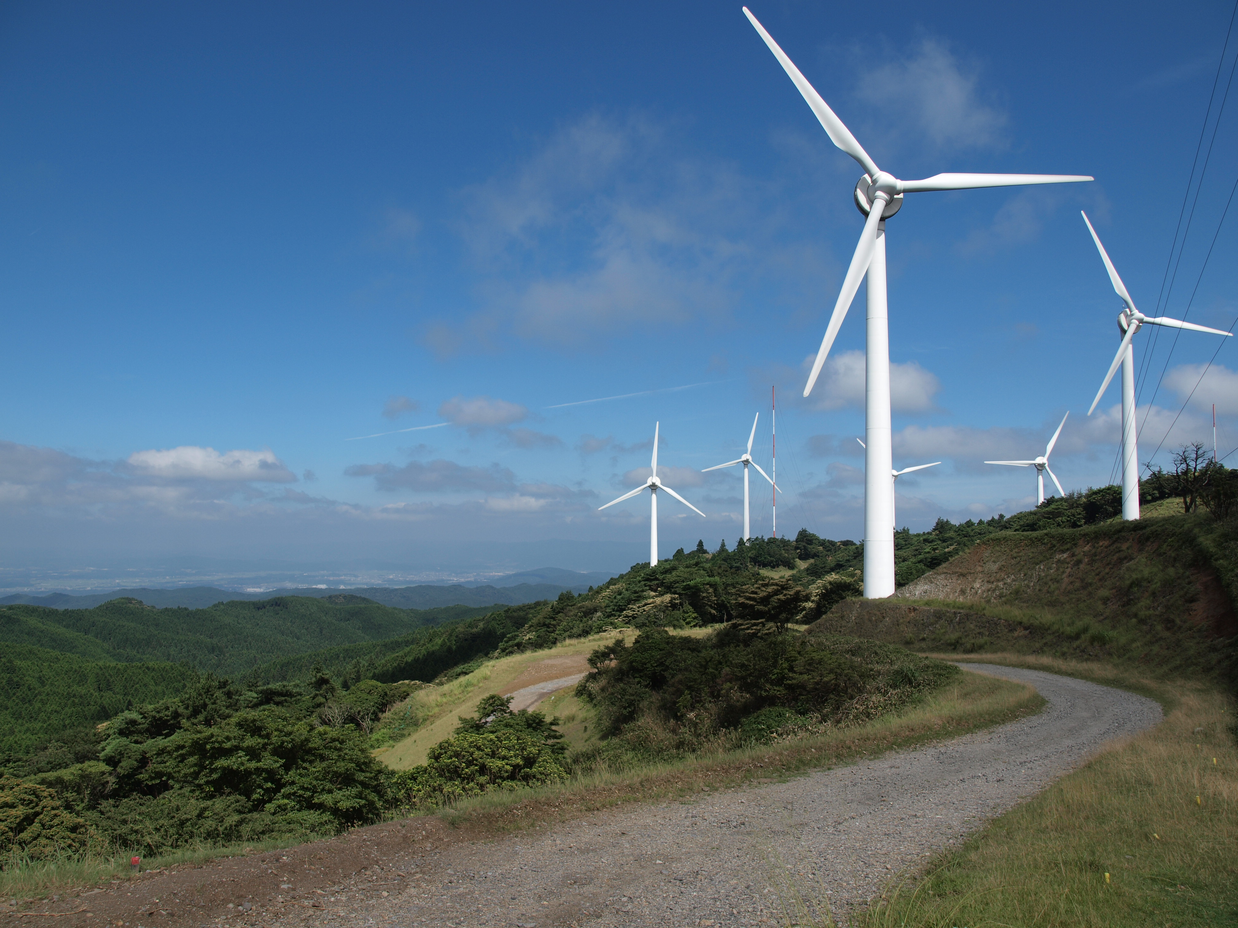 Aoyama-Kogen (Plateau), Iga and Tsu, Mie